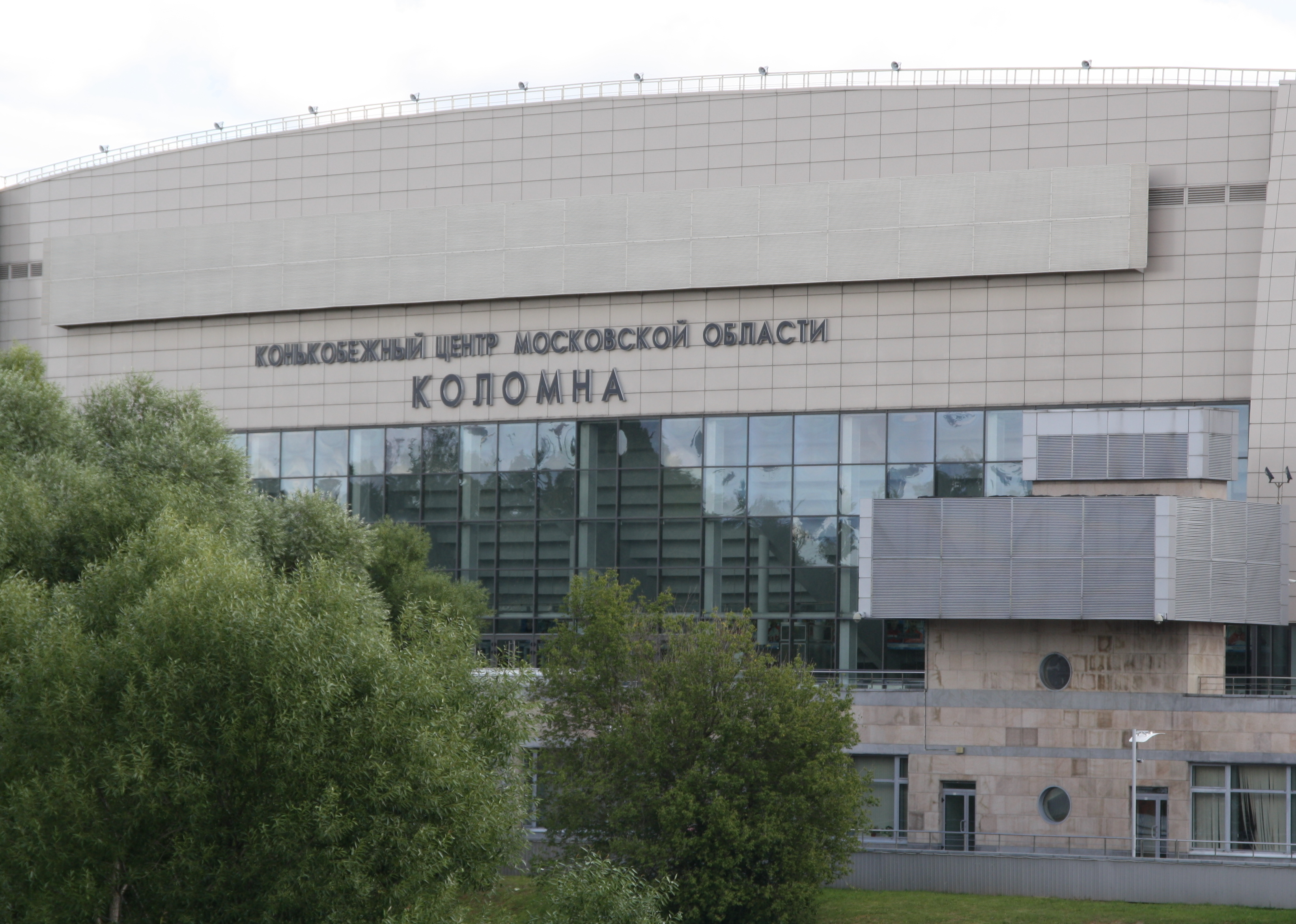 Kolomna Skating Center